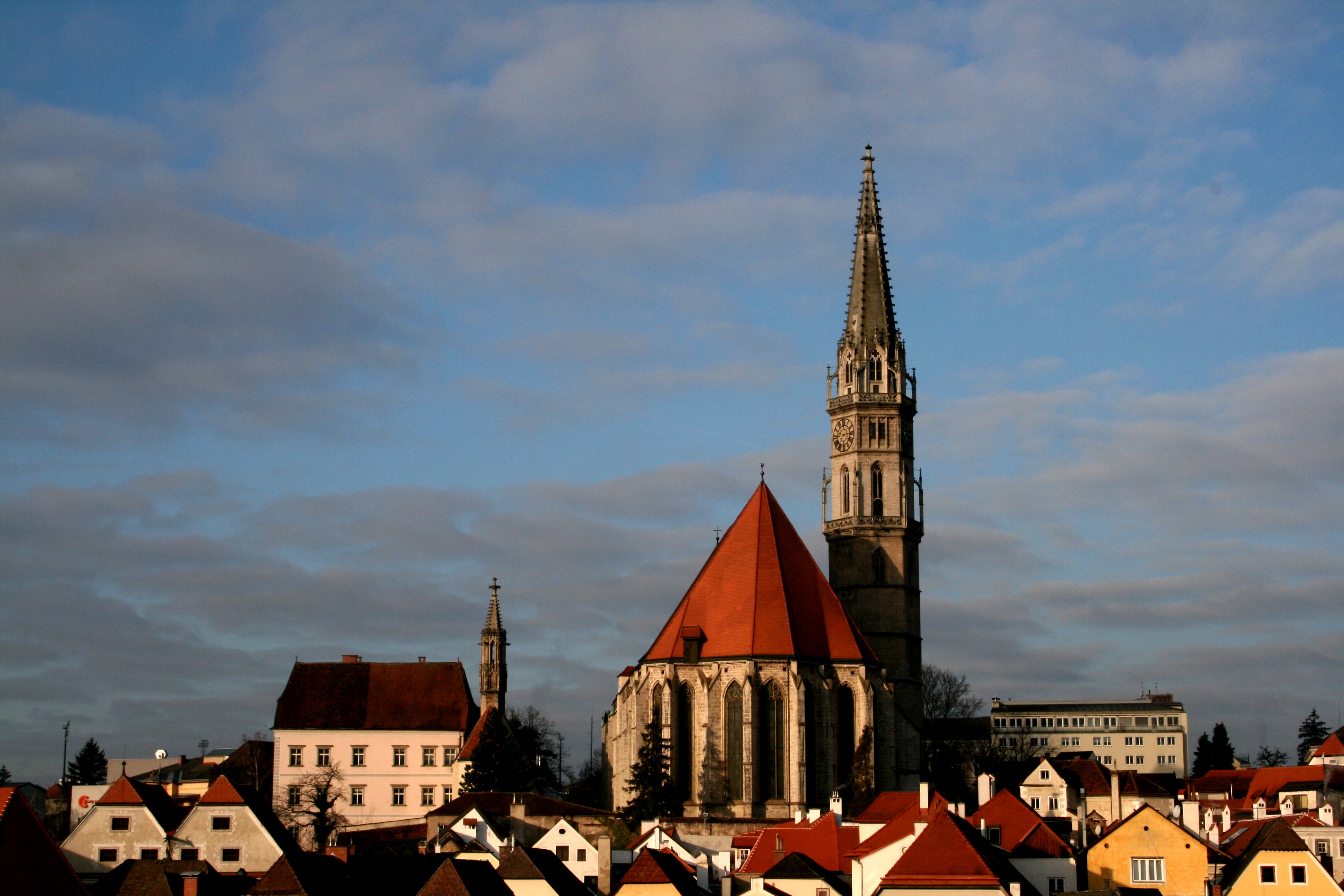 Steyr (Austria): Stadtpfarrkirche (Gothic style)